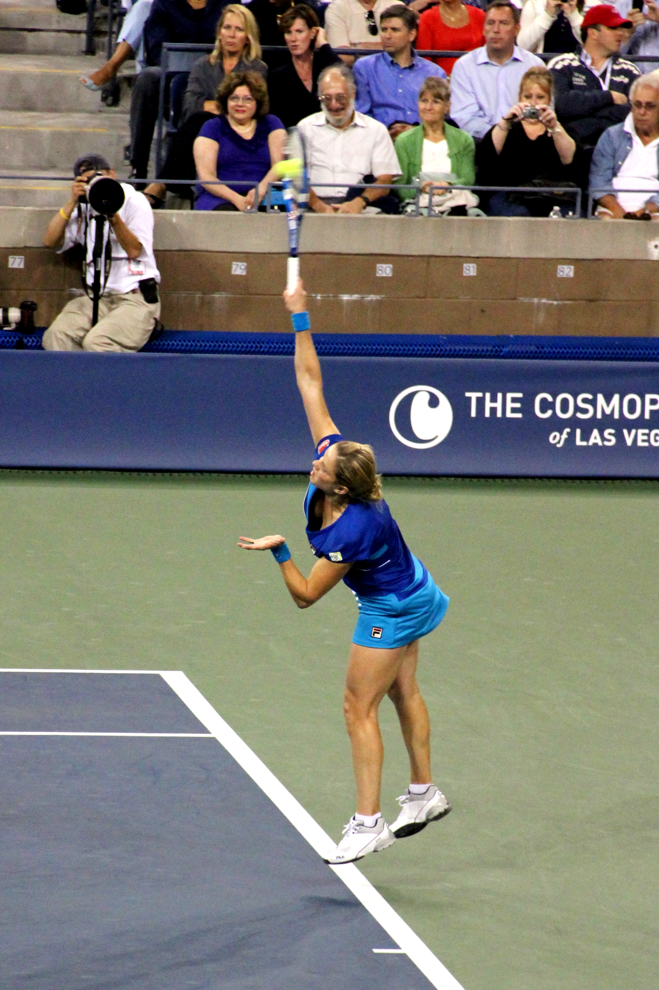 Clijsters vs. Stosur match on Tuesday night, 9/7 at the US Open. The Cosmopolitan is in New York for the 2010 US Open, inviting attendees and guests to experience signature views from our Overlook and in our custom designed suite with prime-stadium seating. For more information on The Cosmopolitan visit